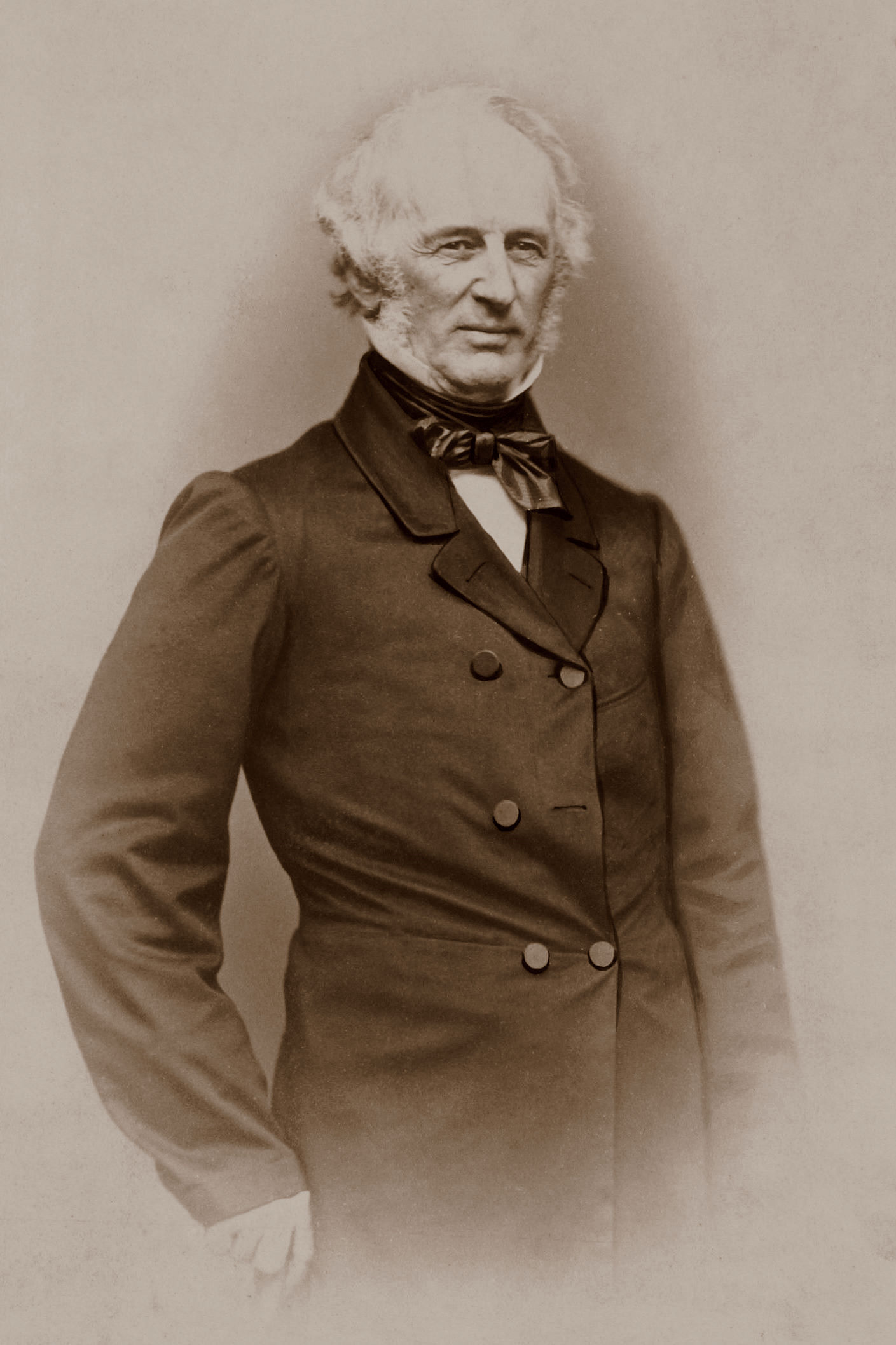 Cornelius Vanderbilt, three-quarter view.